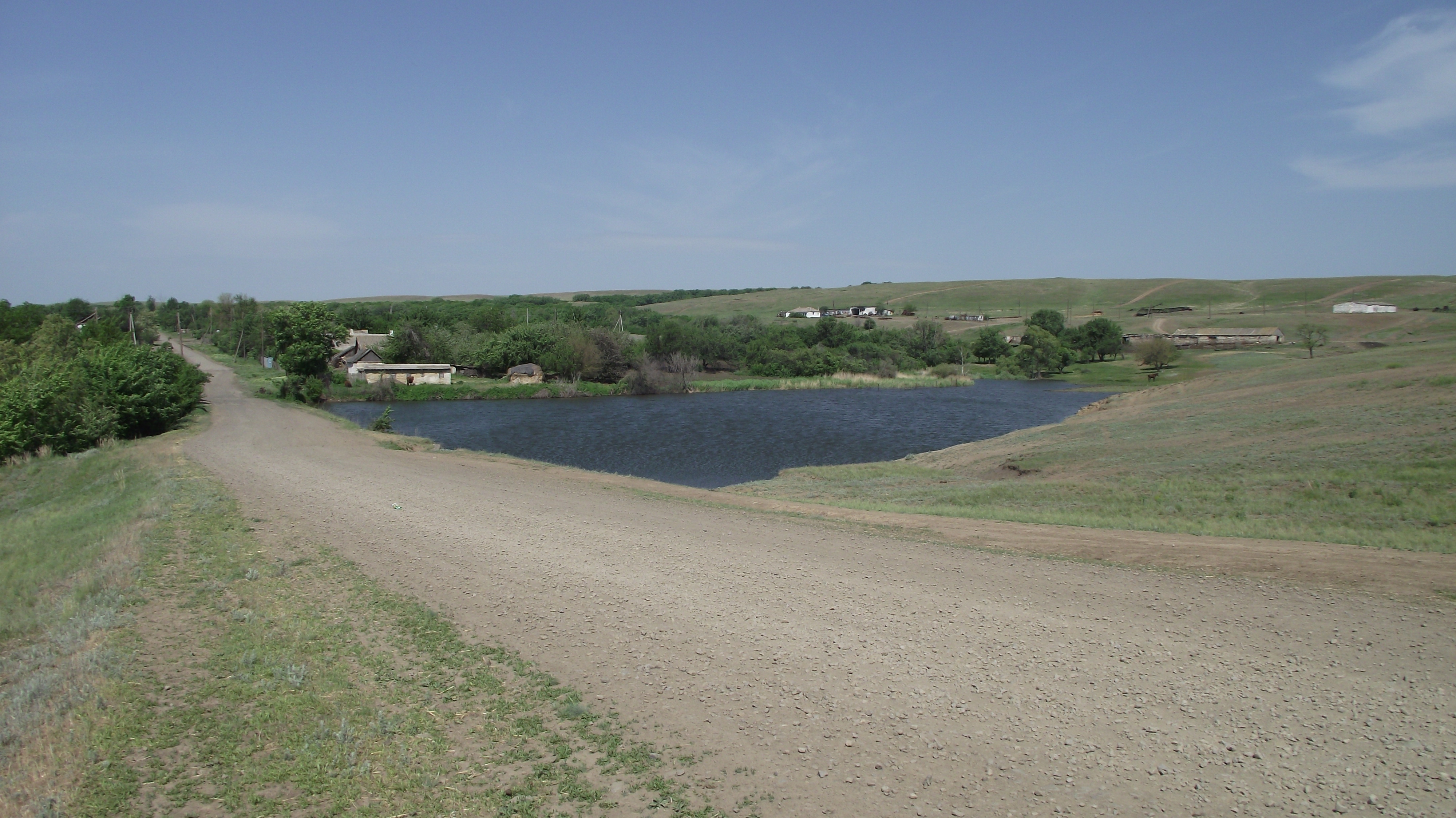 Pond in Cheremshyne, Sverdlovsk Raion